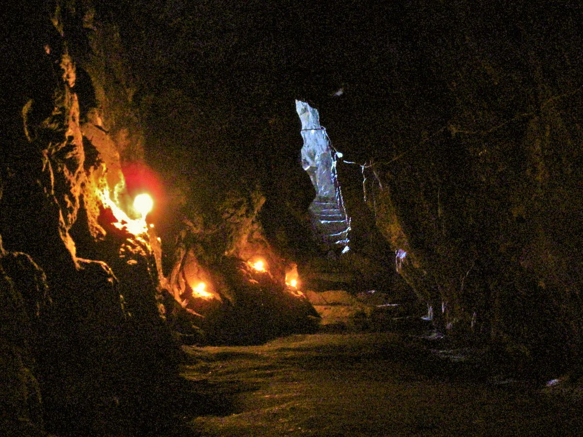 supposedly